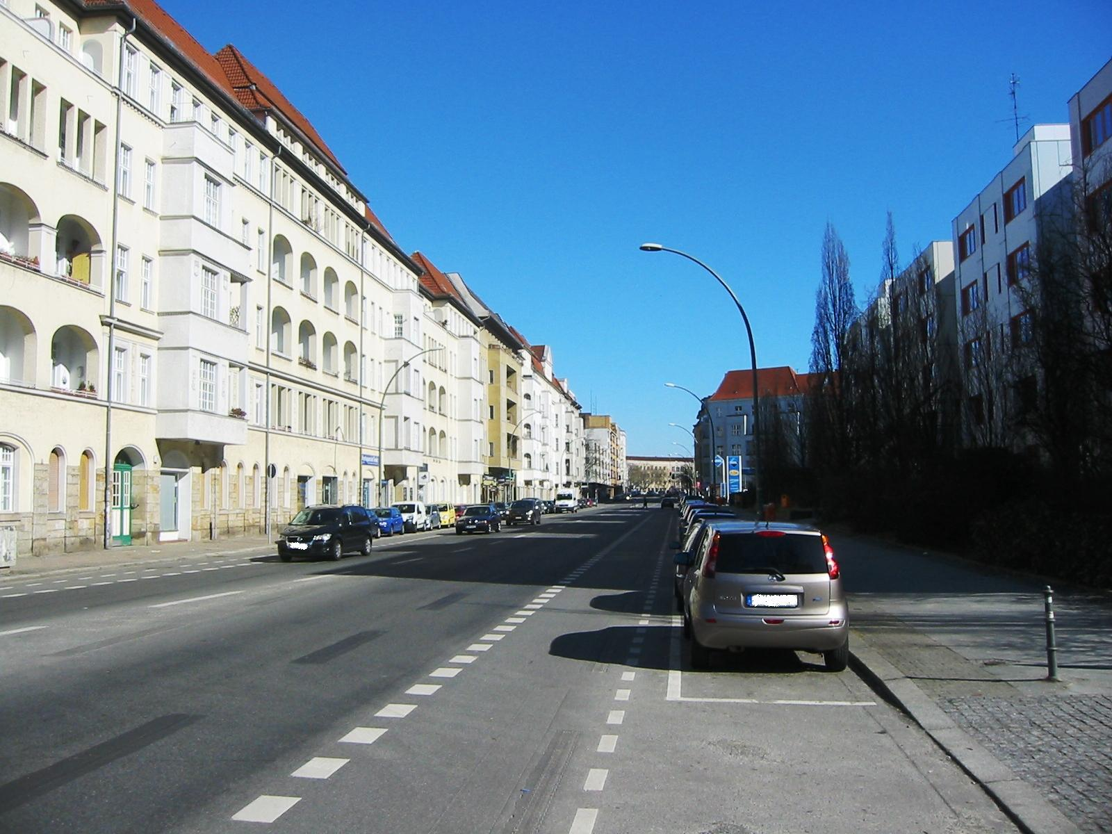 Dudenstraße in Berlin-Kreuzberg (Germany)